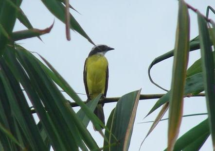 Myiozetetes cayanensis. Possibly Panama or South America.